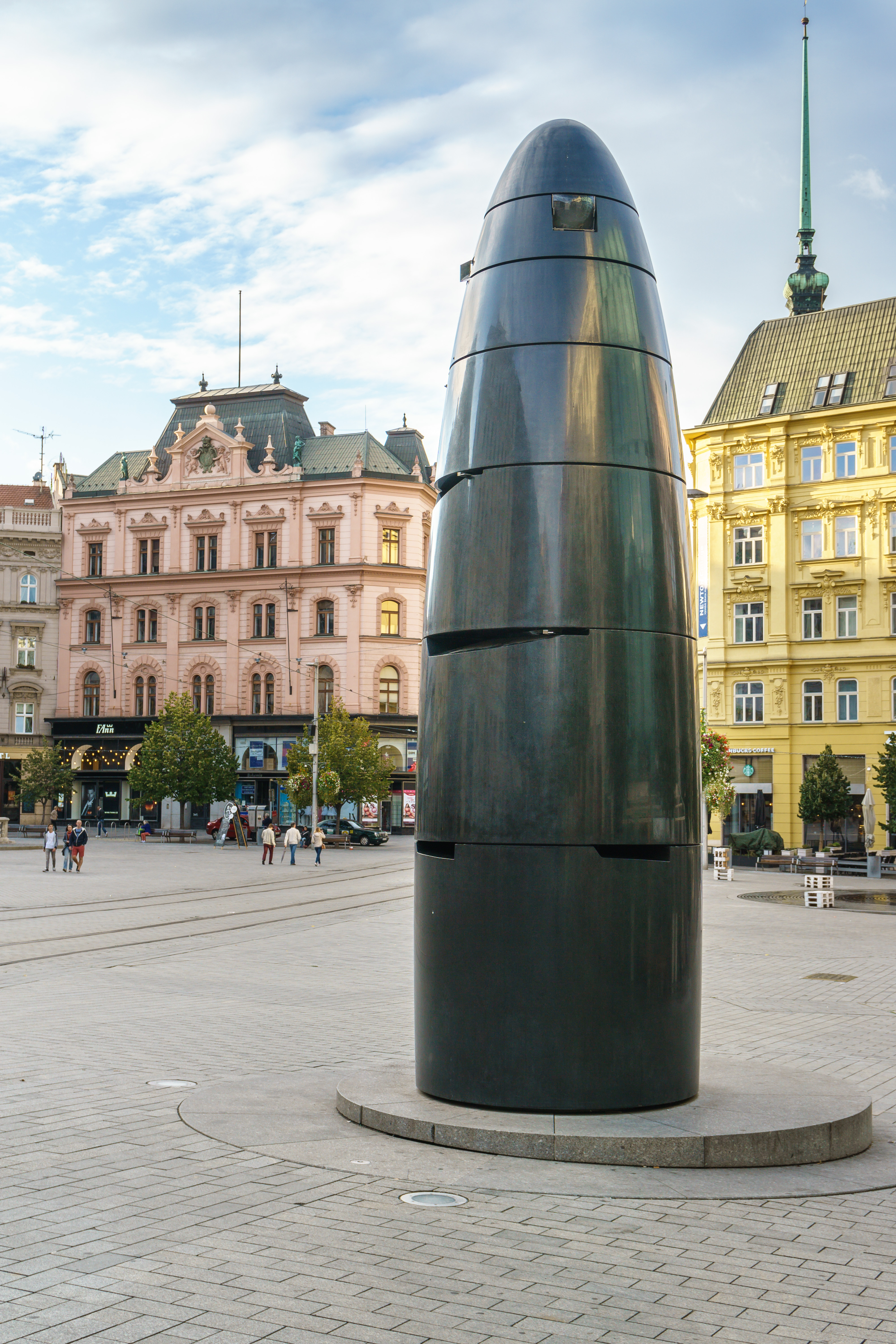 So called astronomical clock, náměstí Svobody, Brno